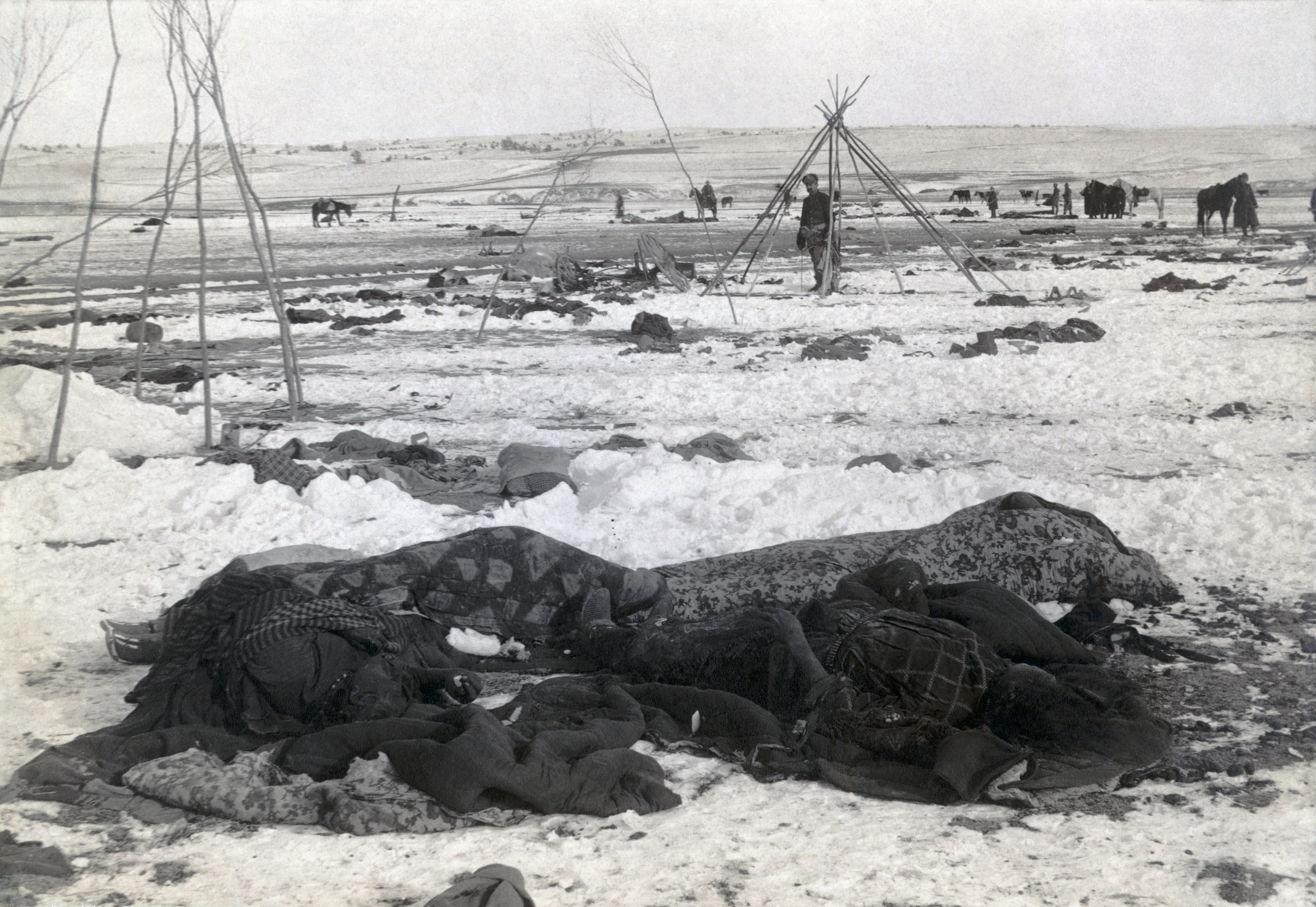 Bibliographic caption: "Big Foot's camp three weeks after Wounded Knee Massacre; with bodies of four Lakota Sioux wrapped in blankets in the foreground; U.S. soldiers amid scattered debris of camp" 1 photographic print : albumen ; 9 x 11 in.